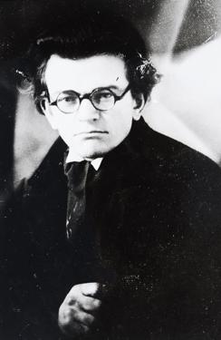 Portrait of the Macedonian painter Dimo Todorovski